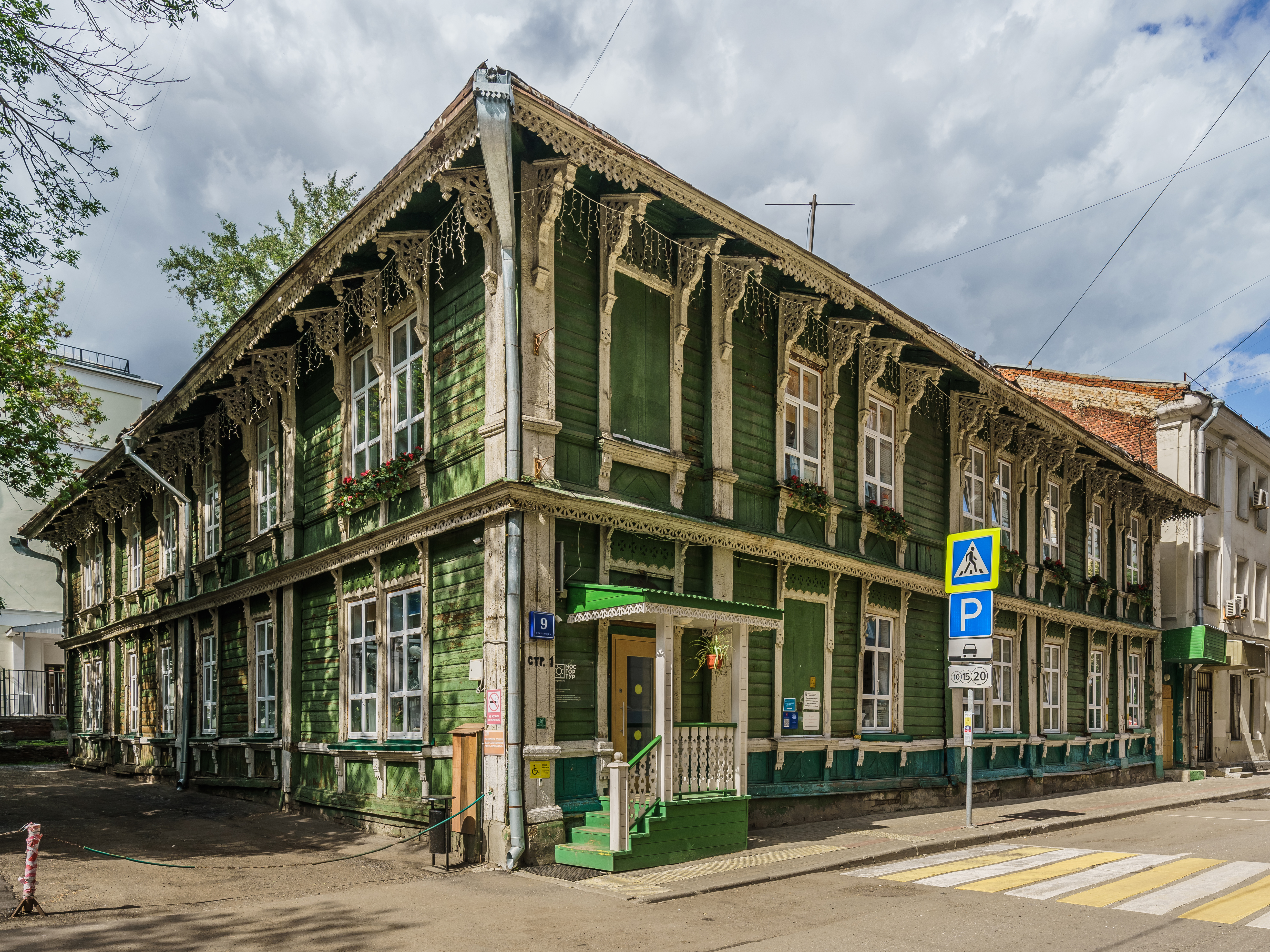 Building at Ogorodnaya Sloboda Lane 9 in Moscow, Russia